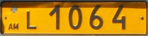 Armenian license plate for cars used for public transport e.g. Taxis